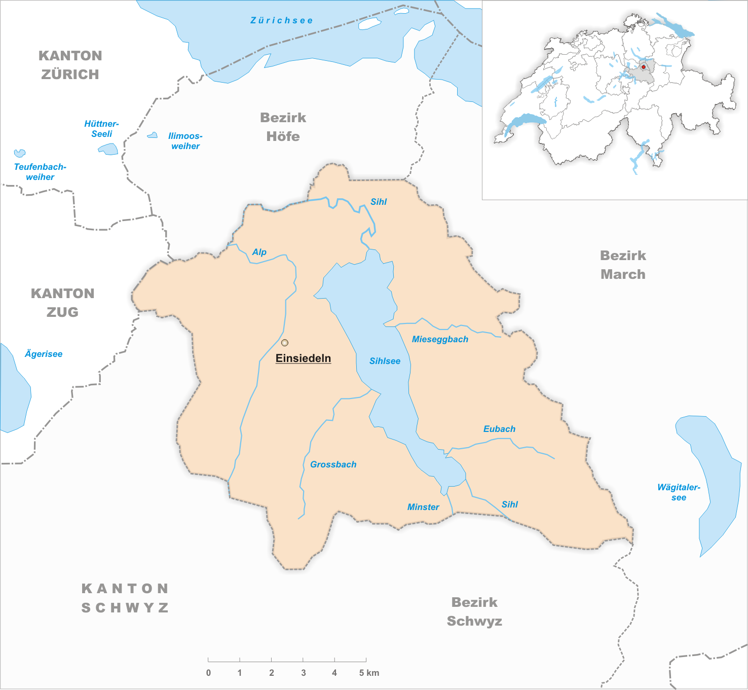 Municipality Einsiedeln